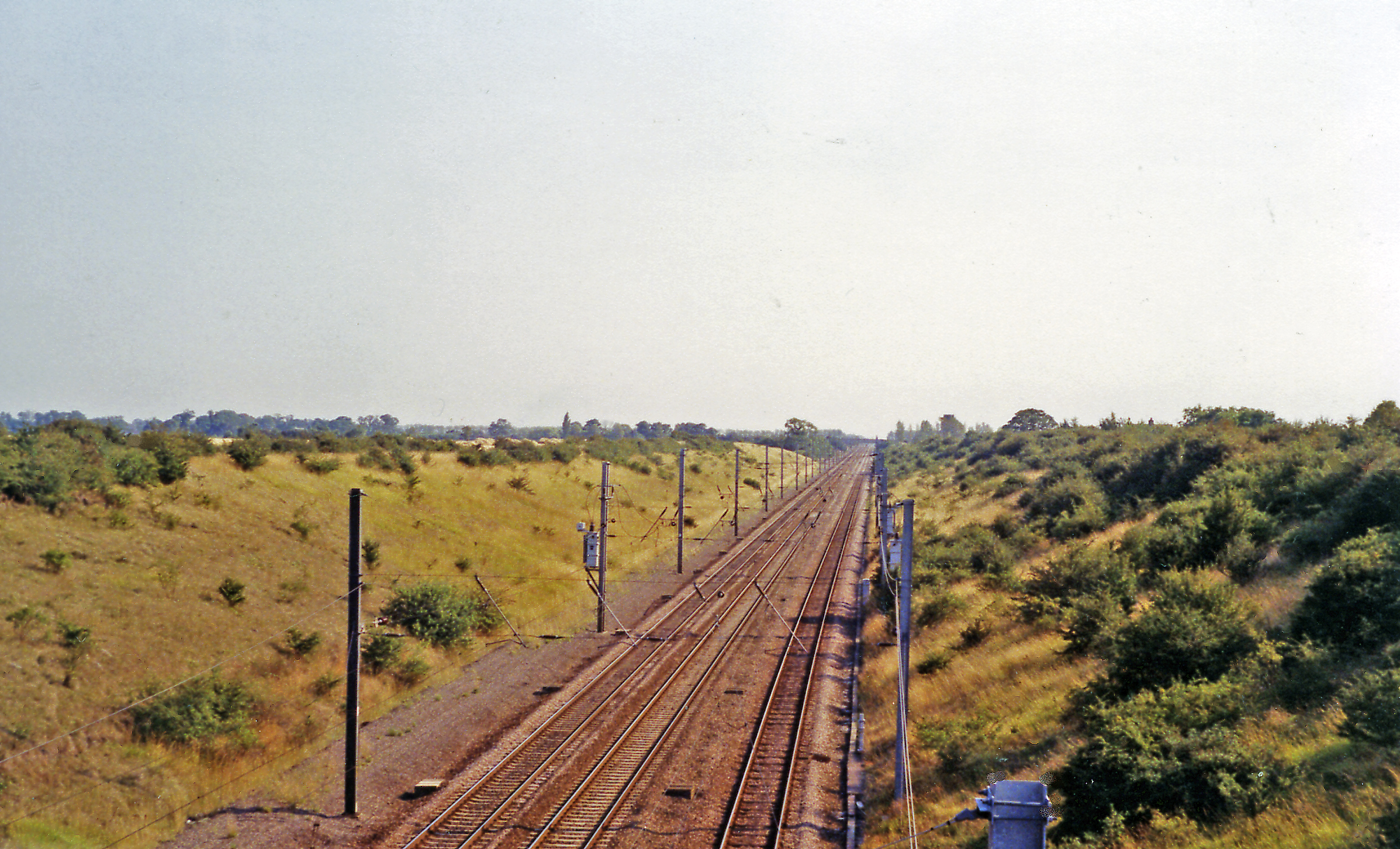 Site of Abbots Ripton station, East Coast Main Line, 1991. View southward, towards Huntingdon and London on the electrified ECML, King's Cross - Doncaster ex-GNR section. IN 1991 there was absolutely nothing left of the station, which was closed to passengers from 15/9/58, along with many other ECML wayside stations, to allow faster running of express trains on double-track sections, but goods was accepted here until 5/10/64.